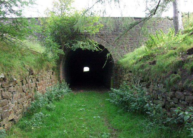 Crawleyside Tunnel taking the now disused Stanhope and Tyne Railway under the B6278 at Crawleyside.